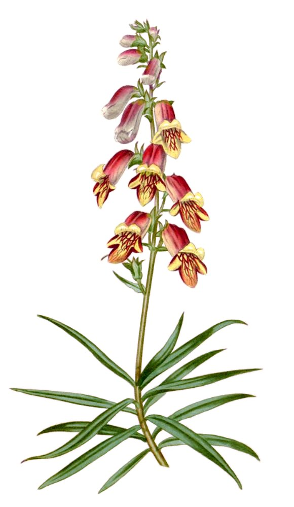 Illustration of Digitalis obscura